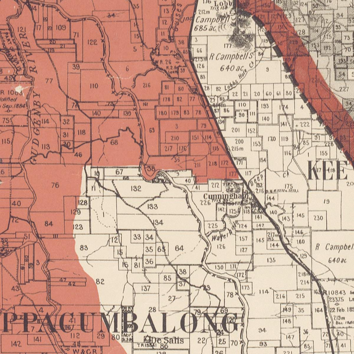 Map showing the only part of the ACT border to be determined by property boundaries, a small section in the south east between the Queanbeyan-Cooma railway line and the eastern watershed of Gudgenby River. The ACT is highlighted in red. The red line in the top right is a proposed addition to Commonwealth territory which did not come about. Note three different sections of the ACT border: Near the top right of this map, the border is the Queanbeyan-Cooma railway line In the centre shows the properties mentioned in the Seat of Government Acceptance Act, 1909: "and bounded thence by that railway generally southerly to the south-eastern corner of portion 177, Parish of Keewong, County of Murray, by the southern boundaries of that portion and portions 218, 211, 36, and 38 generally westerly to the Murrumbidgee River, by that river downwards to a point east of the south-east corner of portion 68, Parish of Cuppacumbalong, County of Cowley, by a line partly forming the southern boundary of that portion west to the eastern watershed of Gudgenby River" (The Murrumbidgee River divides the Parish of Cuppacumbalong in the County of Cowley, on the left, from the Parish of Keewong in the County of Murray, on the right - this boundary is marked with x-x-x lines. The parish names are both visible here, but cut off. ) In the bottom left of this map, the boundary uses the watershed (note how it passes through the property boundaries here)